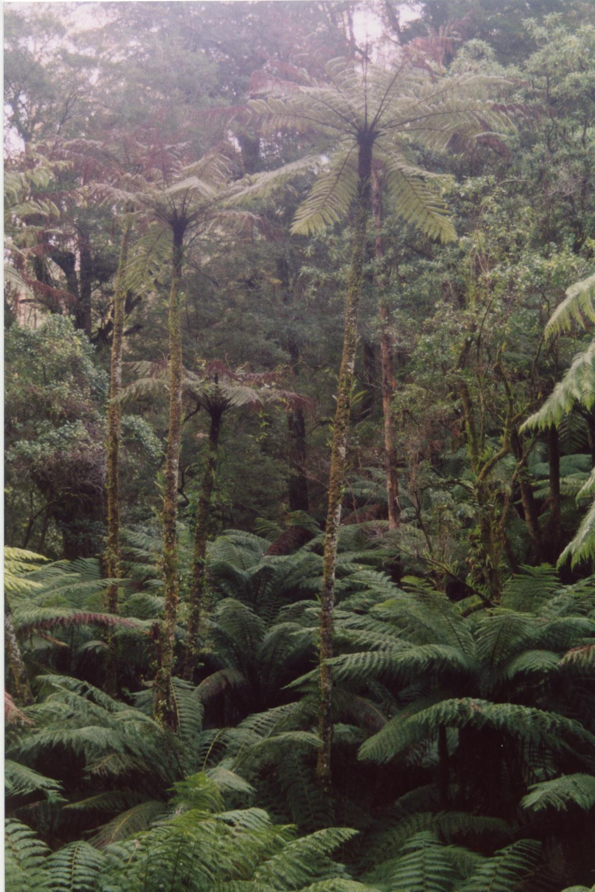 Cyathea cunninghamii, Tarra Bulga, Victoria